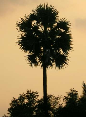 Borassus flabellifer silhouette Foothills of Palni hills, Tamil Nadu. Photograph by L. Shyamal, 2006